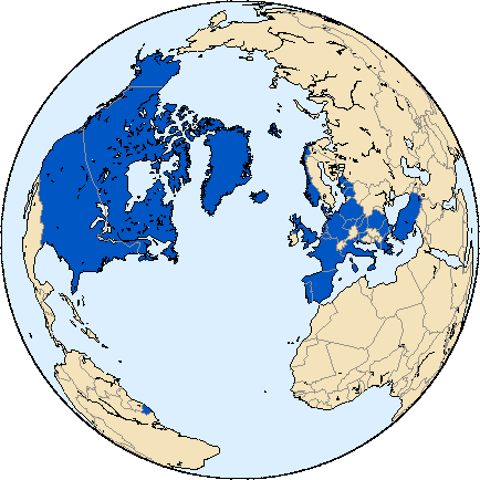 Orthographic projection of NATO member-countries as of 2009.